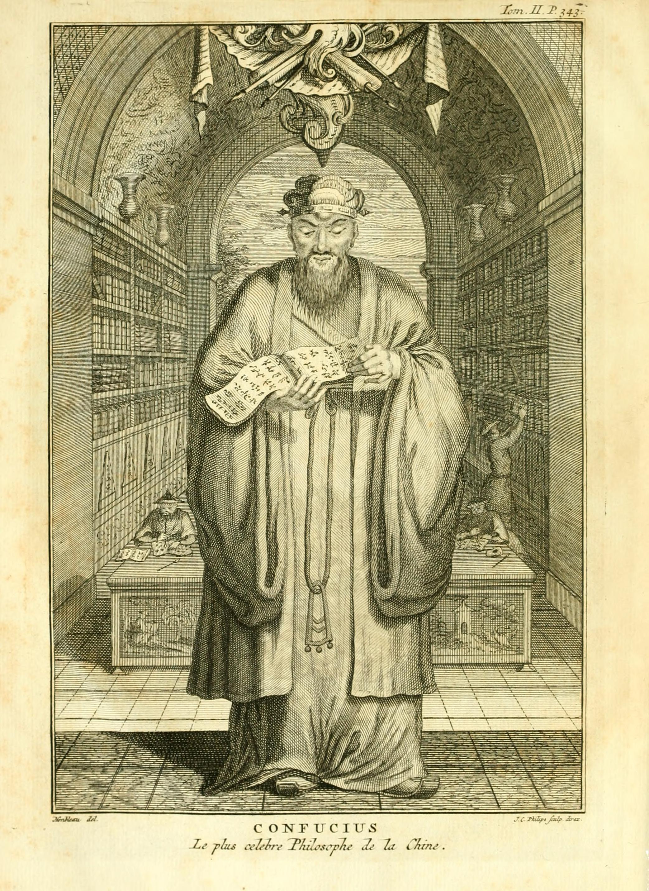 "Confucius: The Most Celebrated Philosopher of China." From the Dutch reprint of Du Halde's Description of China, Vol. II, p. 343. As with the 1687 original, the Chinese characters in the books and on the spirit tablets are illegible scrawl.